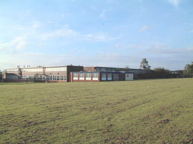 Winstanley College. Upholland Grammar School became Winstanley College in 1981. I went to school here between 1976 and 1983 - happy days! The science buildings were (are) on the left. The low roofed building in the centre of the picture was the 6th form pavilion - THE place to hang out!